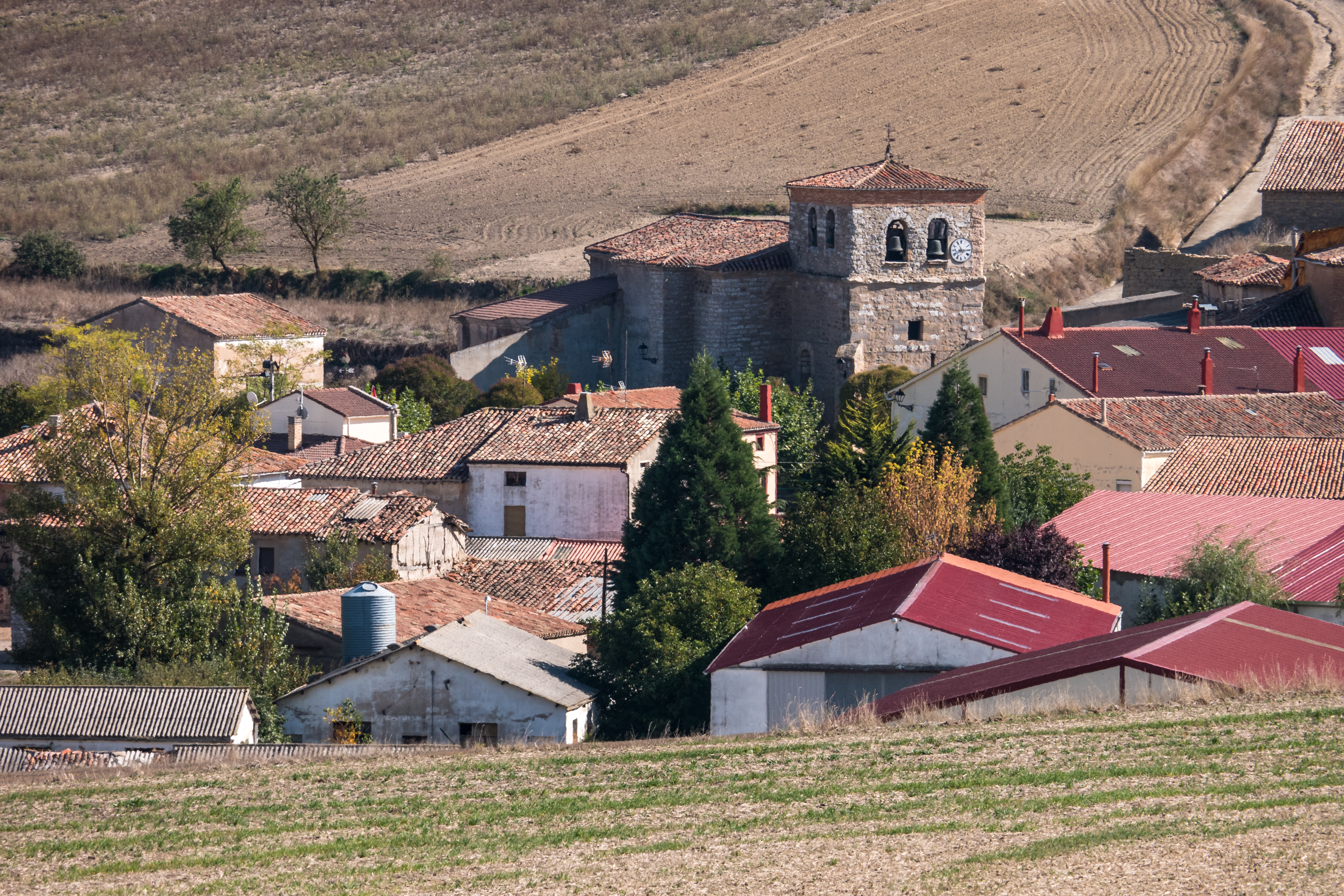 Zuñeda. Burgos, Castilla-León, Spain